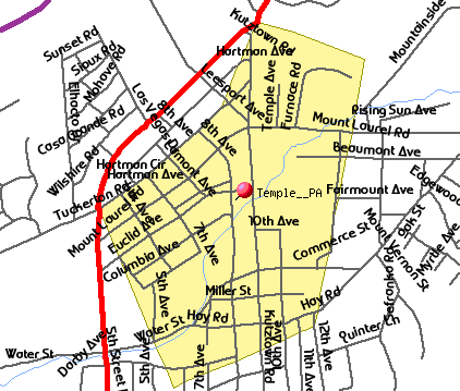 U.S. Census Bureau map of Temple, Pennsylvania